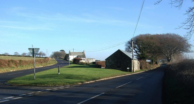 Junction at Plusha A road to Lewannick (left) leaves the B3257 to Callington at this junction.